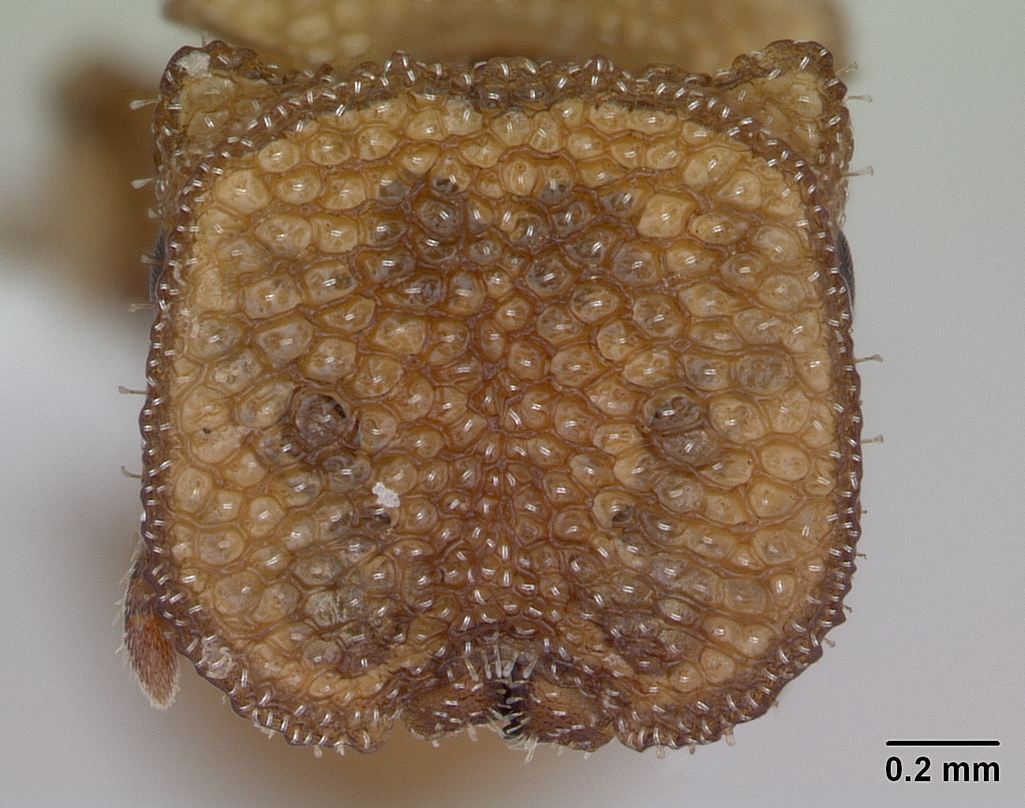 Head view of ant Cephalotes grandinosus specimen casent0173699.